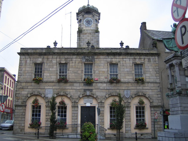 Markethouse The Tholsel, New Ross, Co. Wexford, Ireland